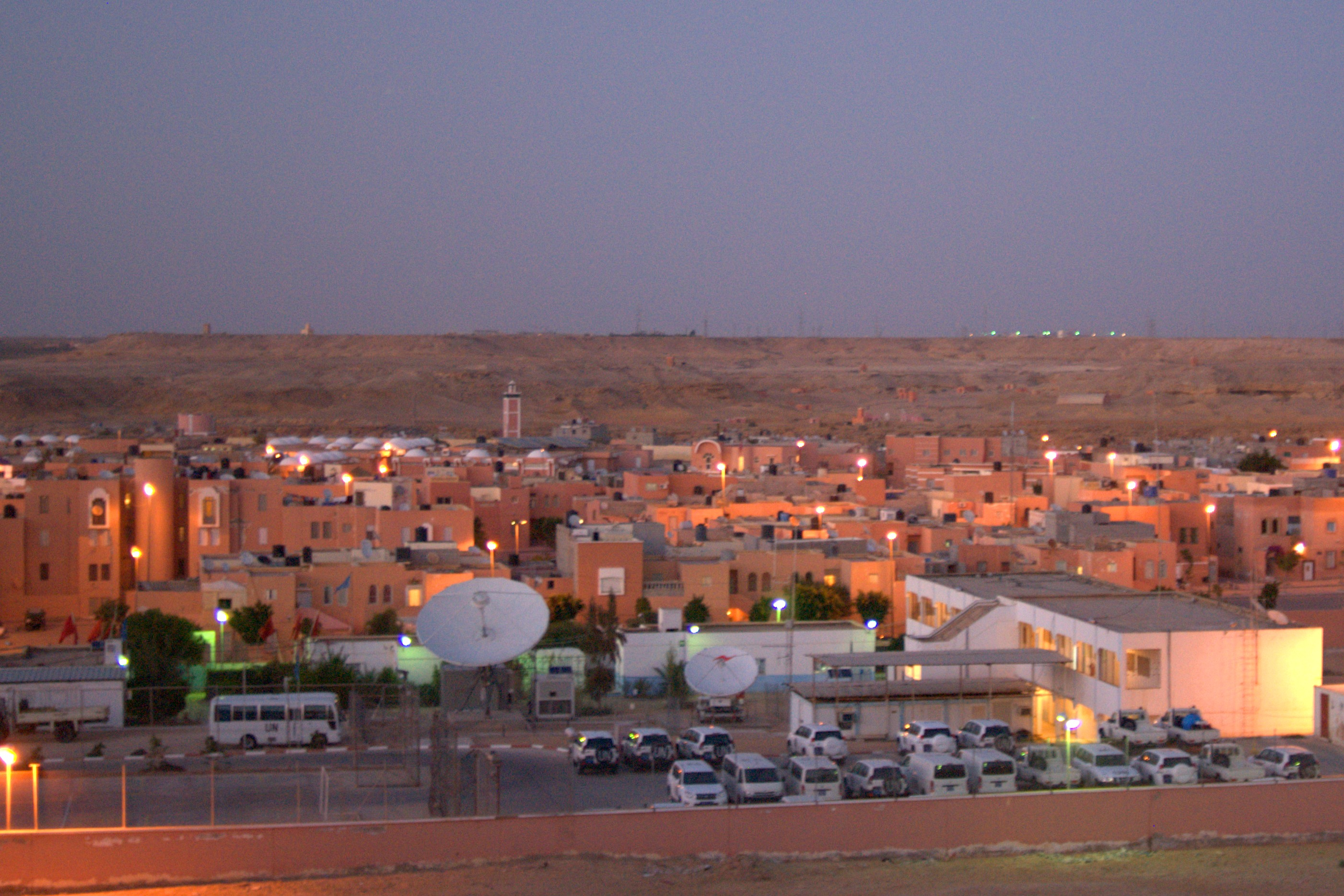 MINURSO headquarters in El Aaiun, Western Sahara, June 2, 2012. Instead the UN flag, several Moroccan flags are displayed in the entrance of the compound.